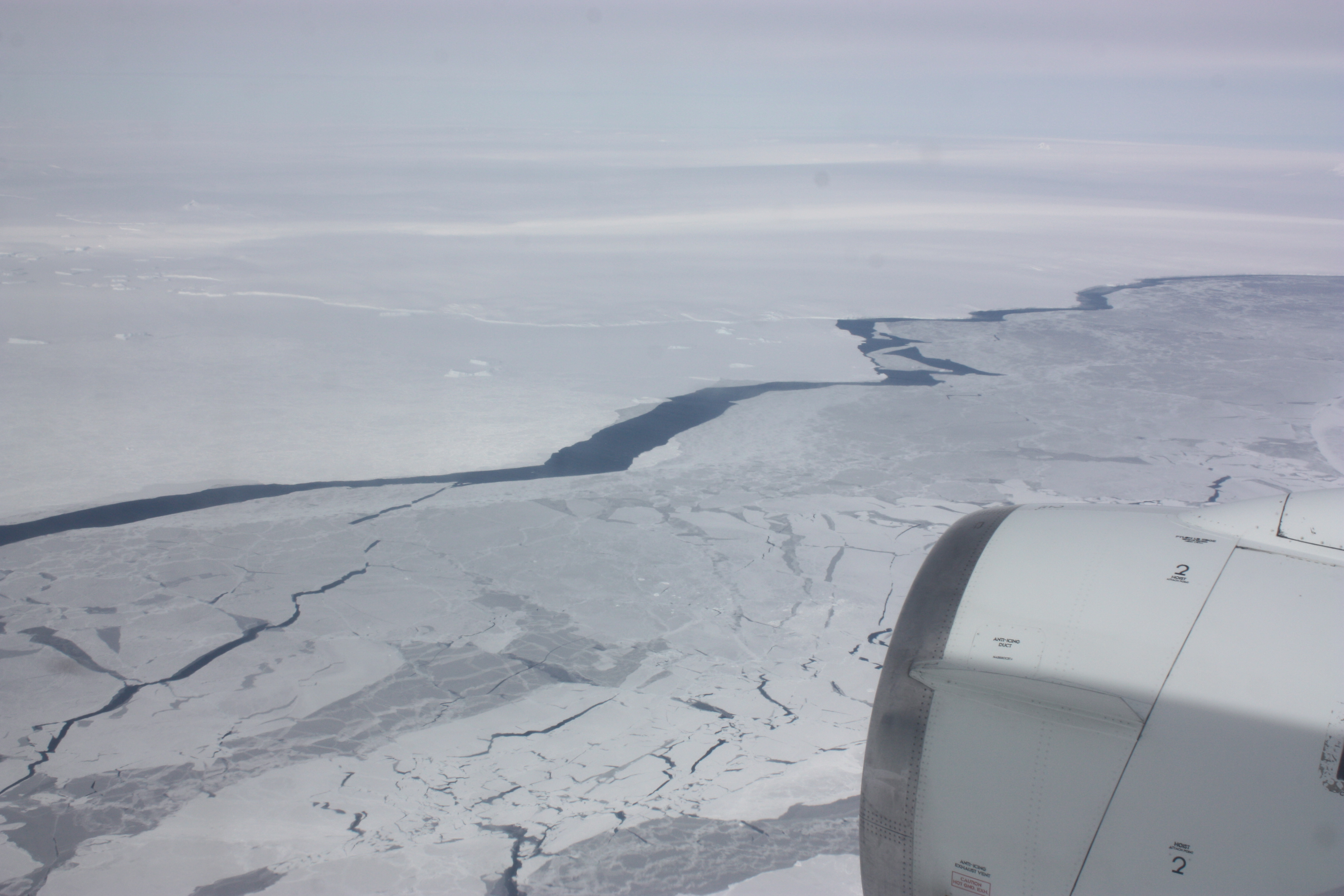 Sea ice and sea ice leads in the Bellingshausen as seen after the DC-8 descended through a concealing layer of cloudcover on Oct. 19, 2012. Credit: NASA / George Hale NASA's Operation IceBridge is an airborne science mission to study Earth's polar ice. For more information about IceBridge, visit